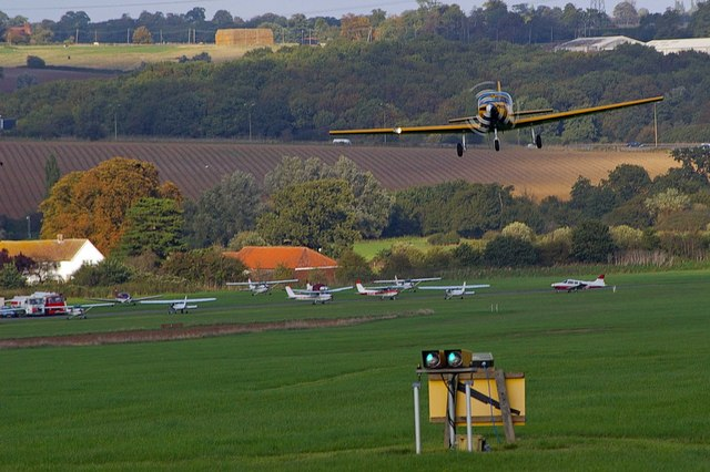 Stapleford Tawney Airfield This is Stapleford Tawney Aerodrome. This civilian flying field was used by the Air Ministry in the immediate pre war years to train RAFVR pilots including Johnny Johnson the top scoring RAF pilot of WW2. At the outbreak of war it was soon requisitioned and transmogrified into RAF Stapleford Tawney. Various types operated from here including Whitley Bombers used to drop agents into occupied territory although Hurricanes also used the base. In 1943 the base was handed to the army for army cooperation duties. It had the uniquely bad luck to be hit by twice by V2 rocket attack! The airfield ceased military operations before the end of the war. To go to the next field in an alphabetical tour of Essex WW2 airfields click on 66964. Much information was gleaned from Graham Smith’s book “Essex Airfields In The Second World War”.